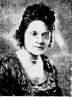 Sara Spencer Washington, from a 1921 publication. An older black woman wearing a beaded gown.